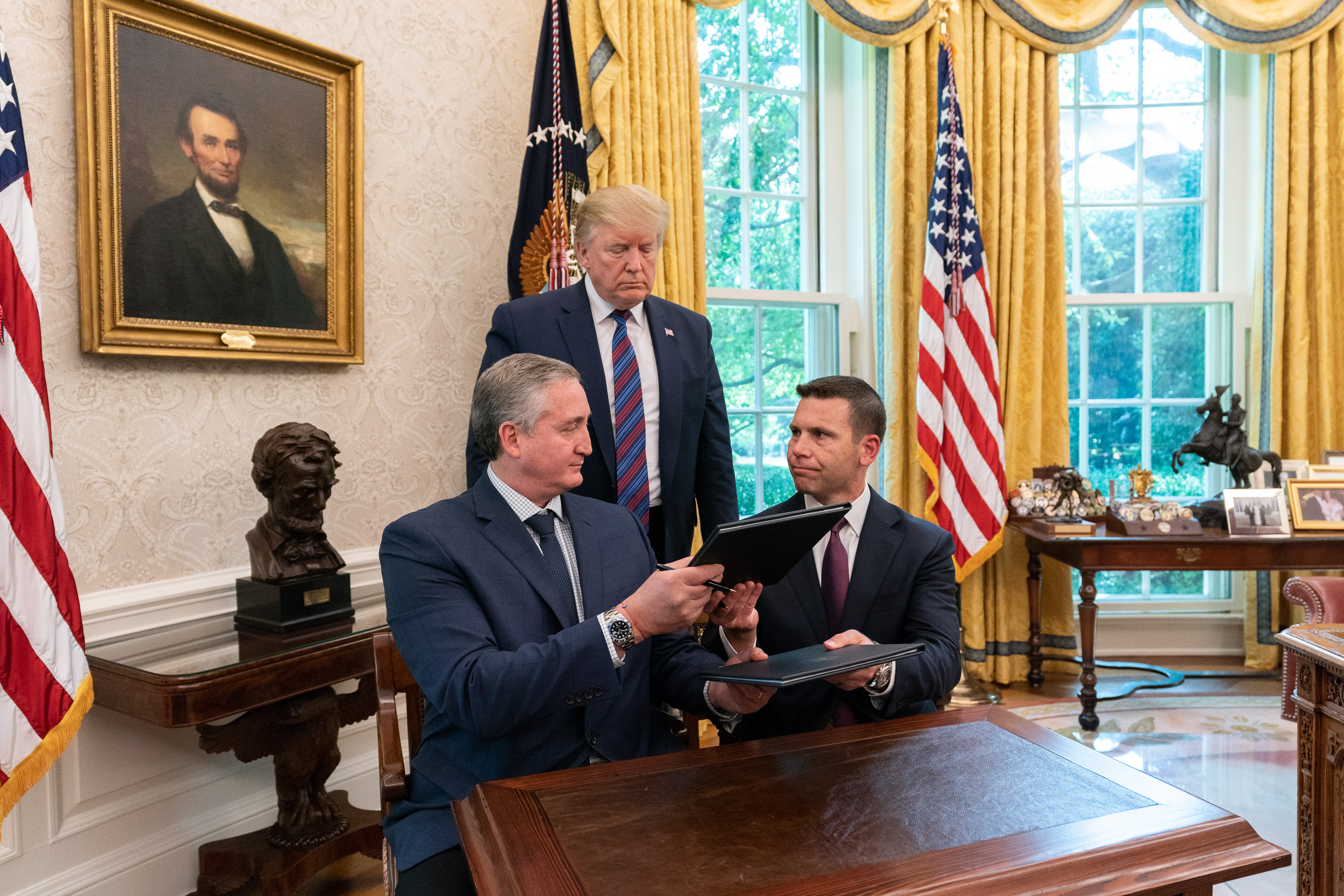 President Donald J. Trump observes the agreement signed between the government of the United States of America and the government of the Republic of Guatemala on Cooperation Regarding the Examination of Protection Claims, Friday, July 26, 2019, in the Oval Office of the White House, signed by Kevin K. McAleenan, Acting Secretary of Homeland Security and Enrique Antonio Degenhart Asturias, Guatemala’s Minister of Interior and Home Affairs. (Official White House Photo by Joyce N. Boghosian)